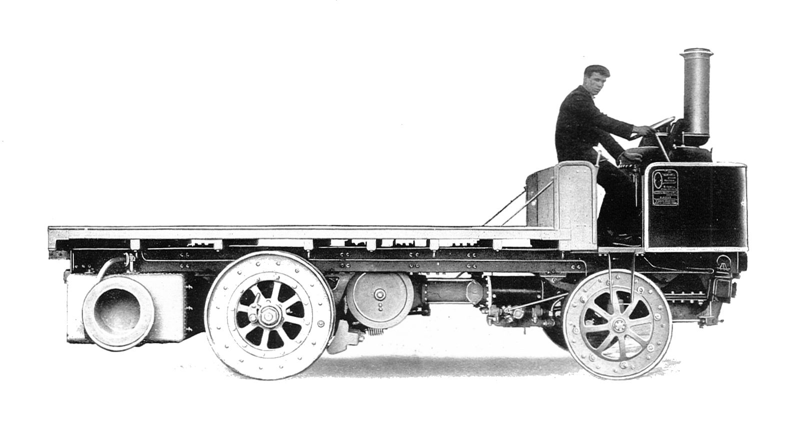 Standard "Sentline(sic)" 6-ton Steam Motor Waggon 10 tons with a trailer Sentinel "Standard" model, circa 1905.